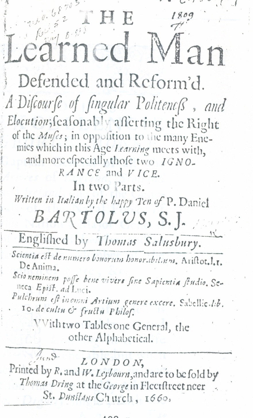 titlepage